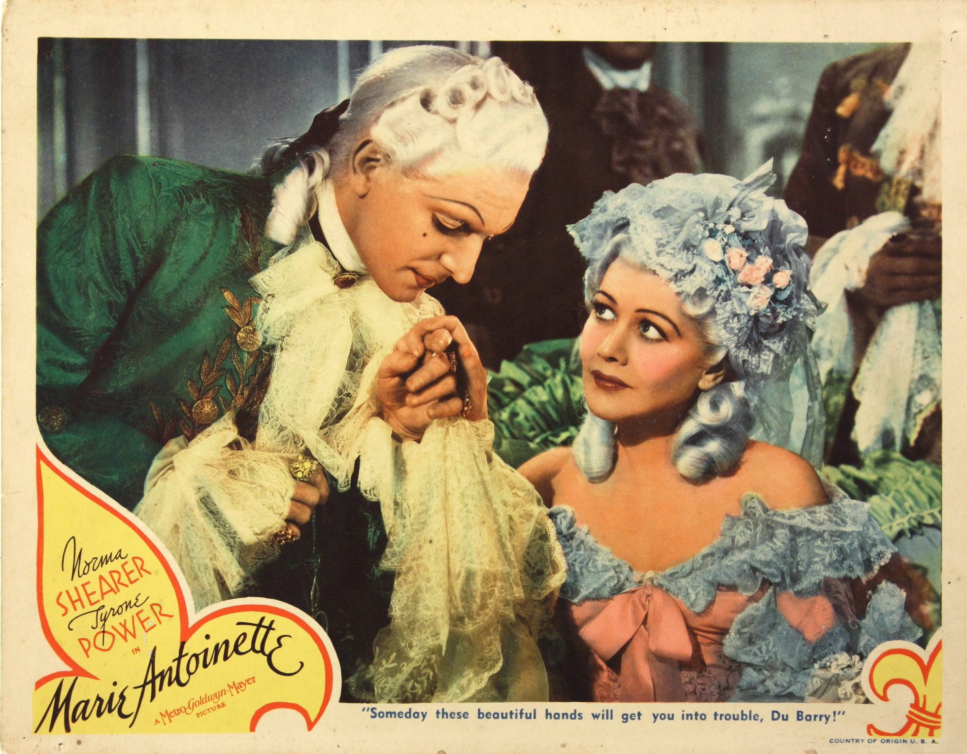 Lobby card for the American historical drama film Marie Antoinette (1938).